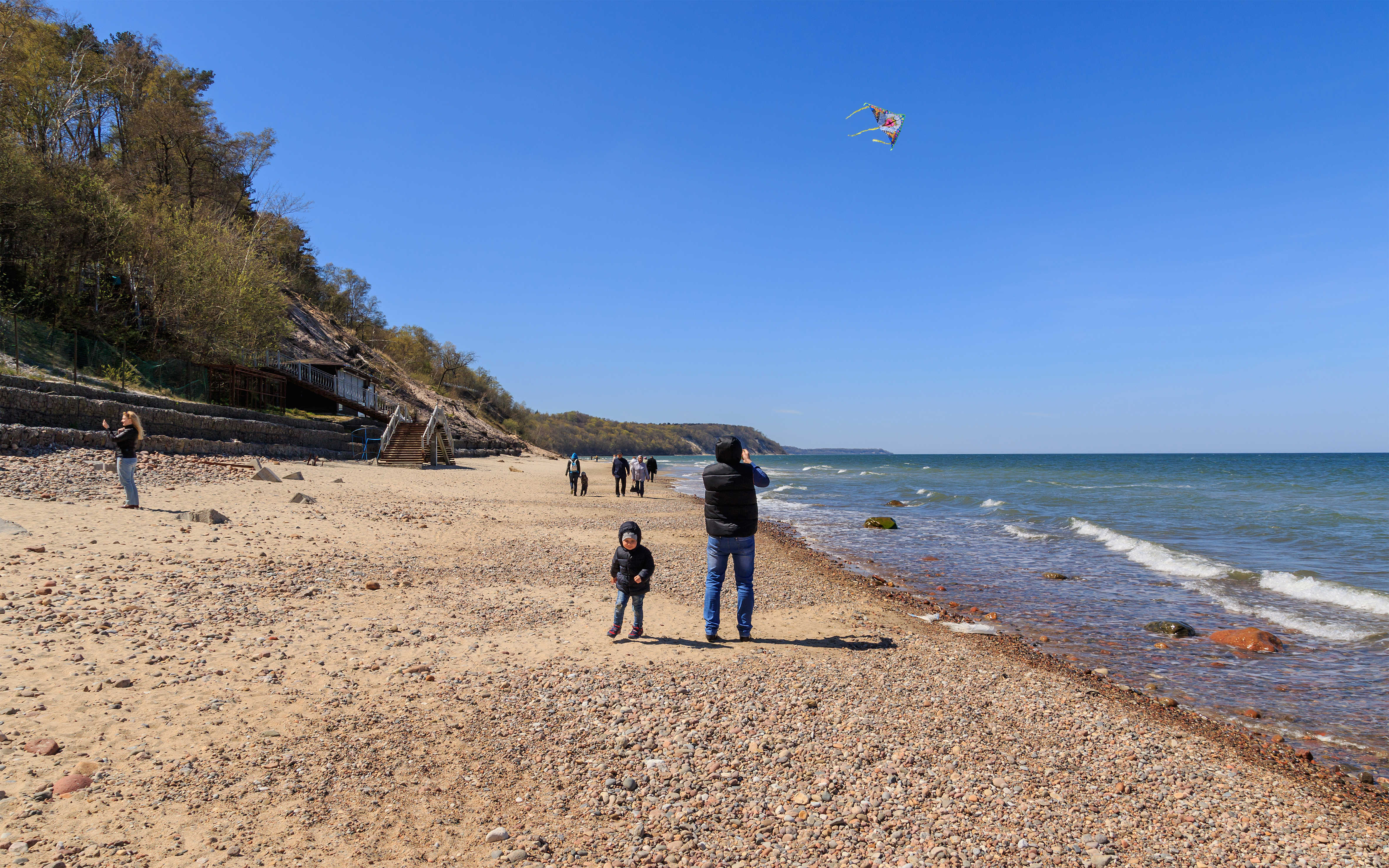 Sea beach in Svetlogorsk formerly Rauschen / Kaliningrad Oblast (Russia).